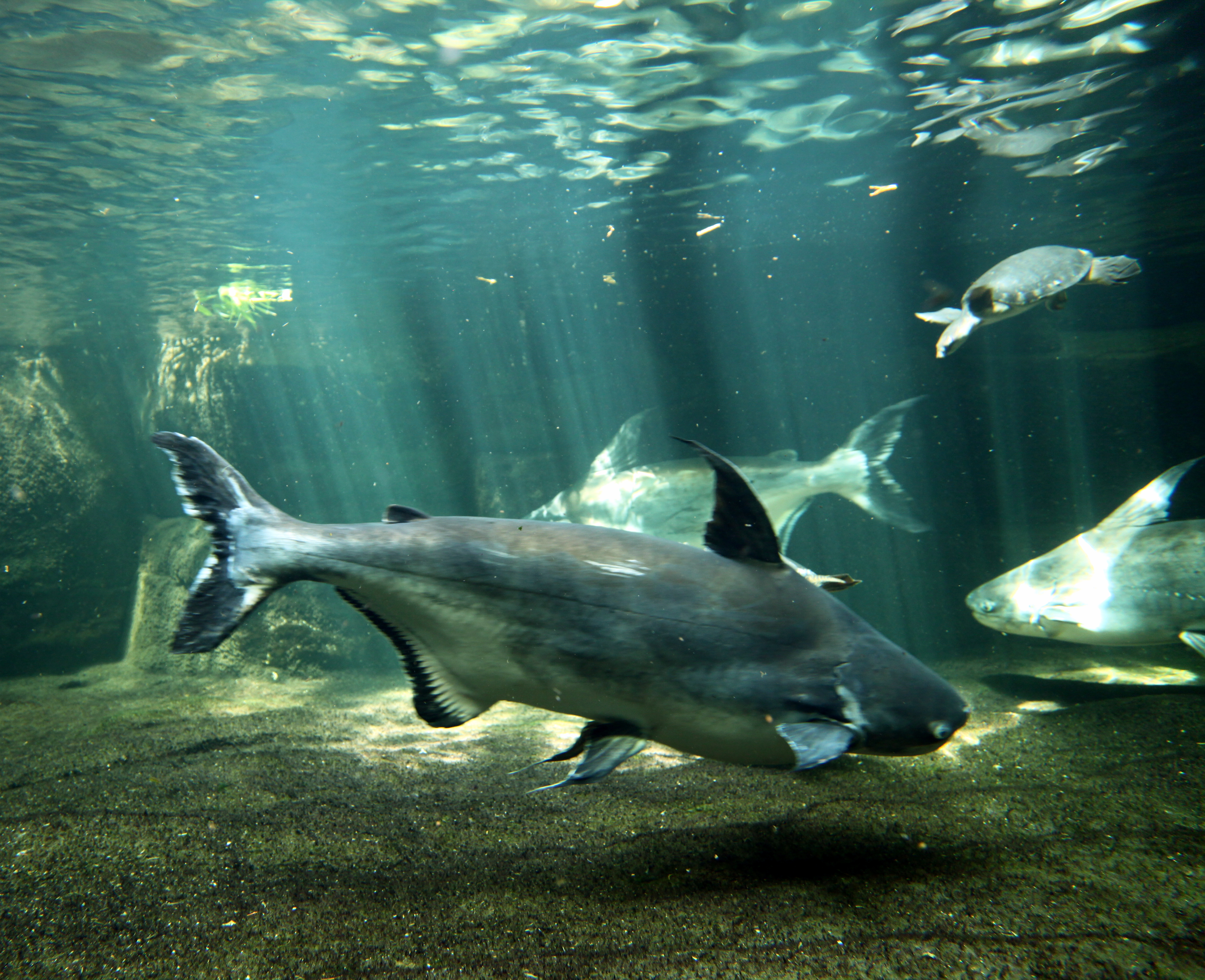 A school of giant pangasius (Pangasius sanitwongsei) at the Zoologischer Garten Berlin. There is also a pig-nosed turtle (Carettochelys insculpta).